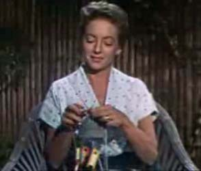 fixed aspect ratio of Evelyn_Keyes_2.jpg, from wiki commons: :File:Evelyn Keyes 2.jpg